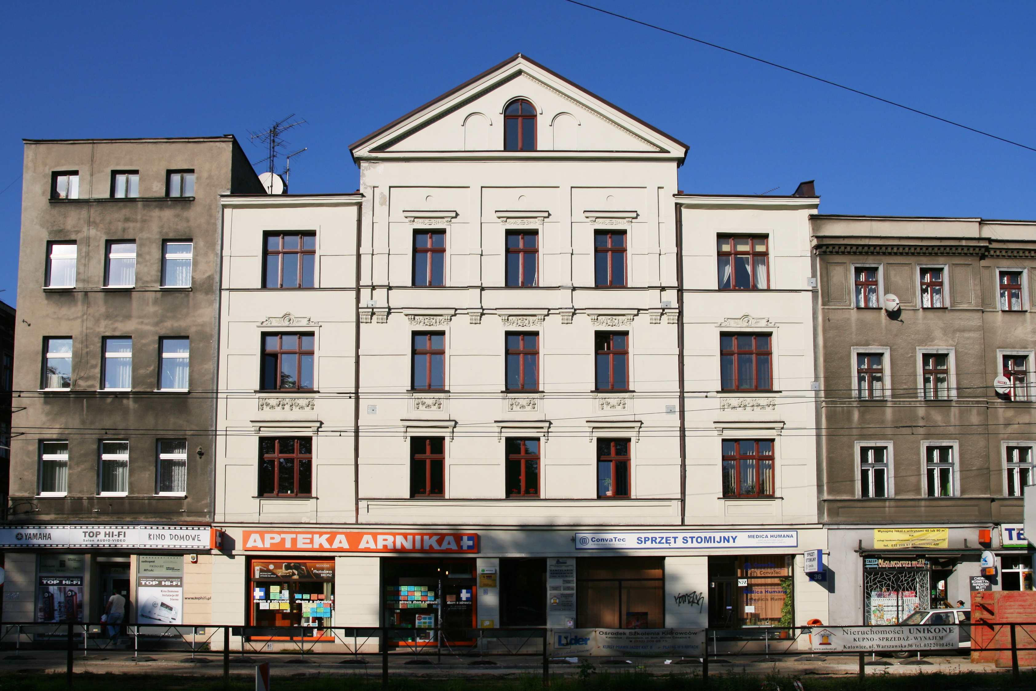 Tenement house on the Warszawska Street in Katowice (Poland).